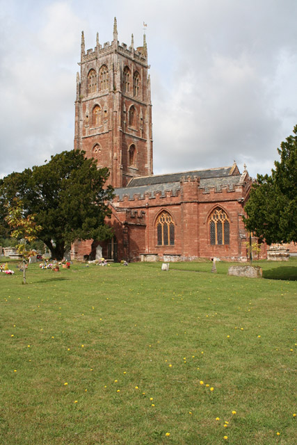 St Mary the Virgin parish church, Bishop’s Lydeard, Somerset, seen from the southeast